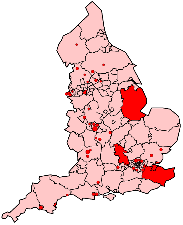 Grammar areas (filled) and individual and groups of grammar schools (circles) in England, as identified by the Education (Grammar School Ballots) Regulations 1998.